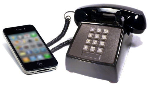 Smartphone (left) and Landline phone (right)